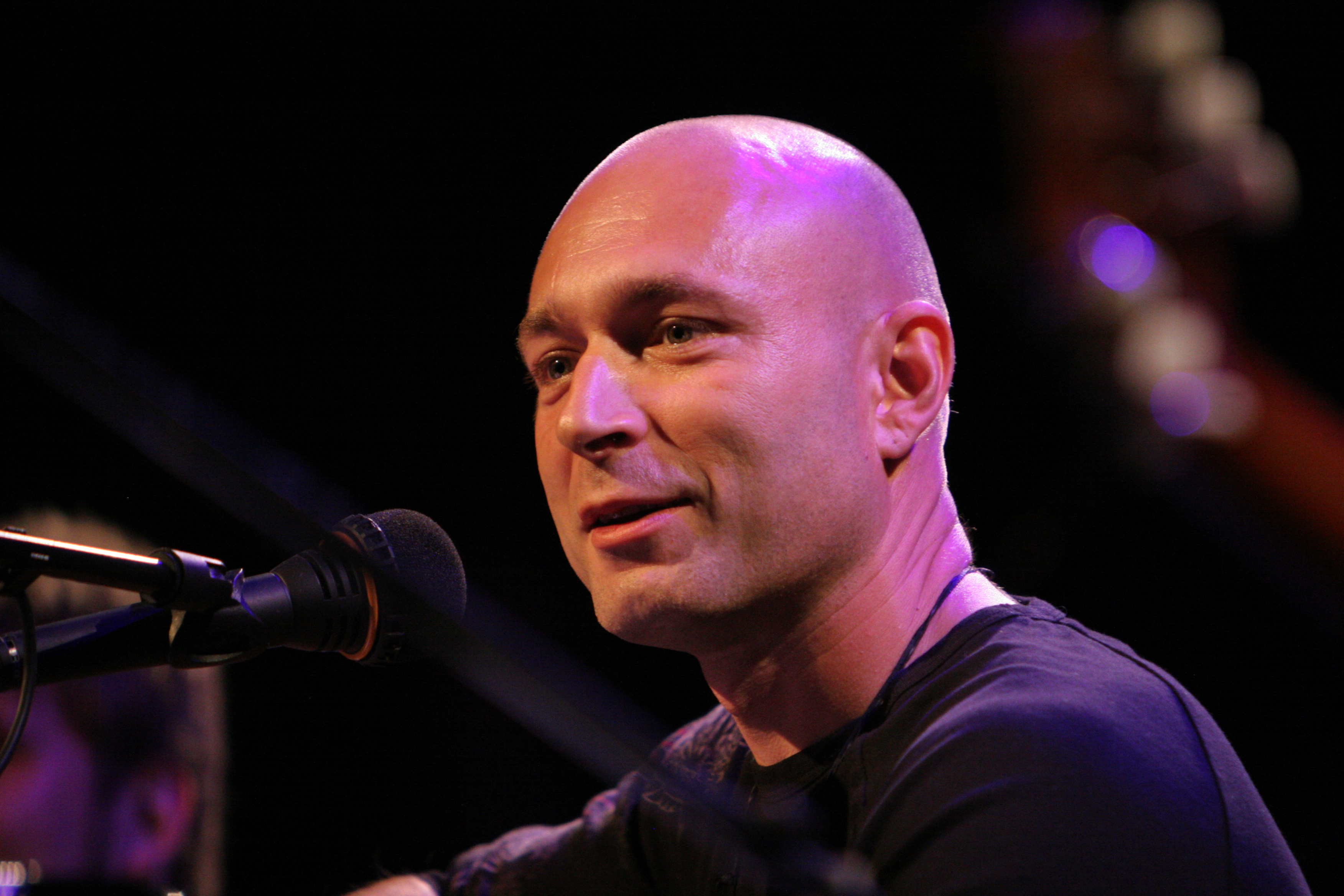 Czech singer Daniel Landa on concert in Theatre Kalich, Prague, 2007